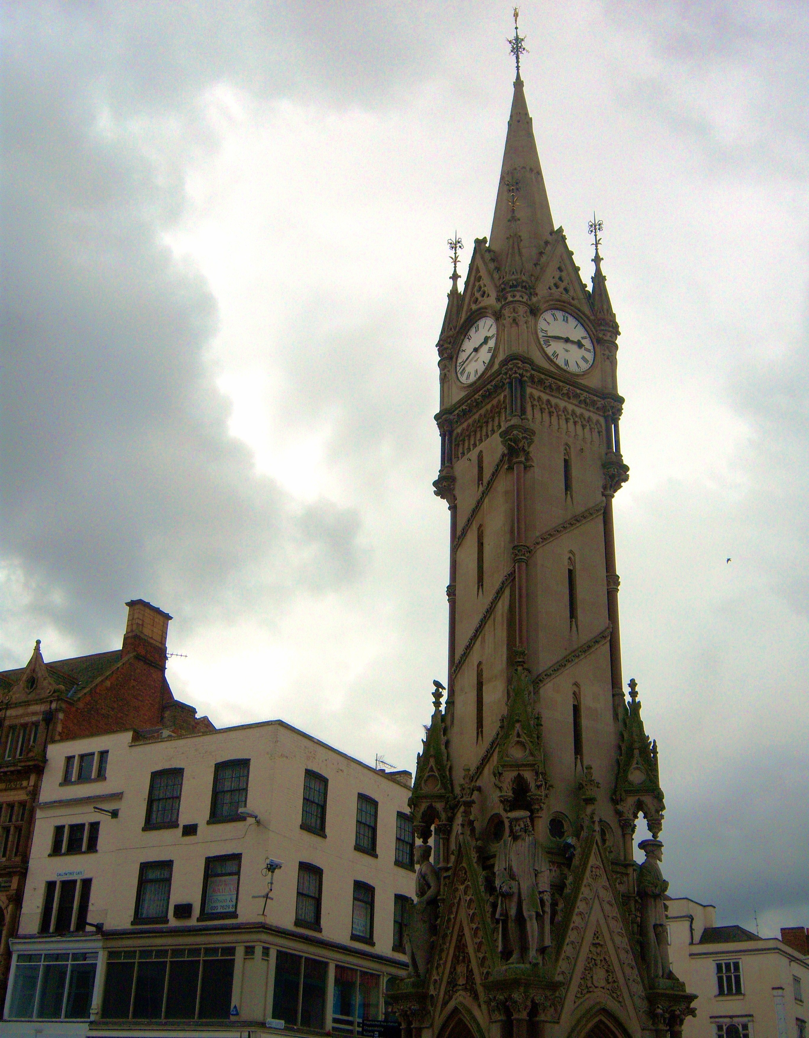 Clock Tower, central Leicester.